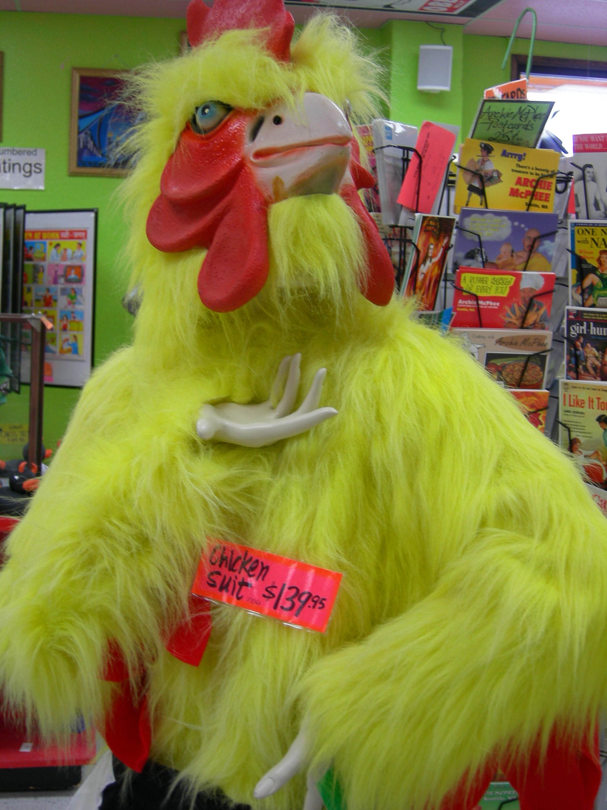 Chicken suit, Archie McPhee store, Ballard, Seattle, Washington.